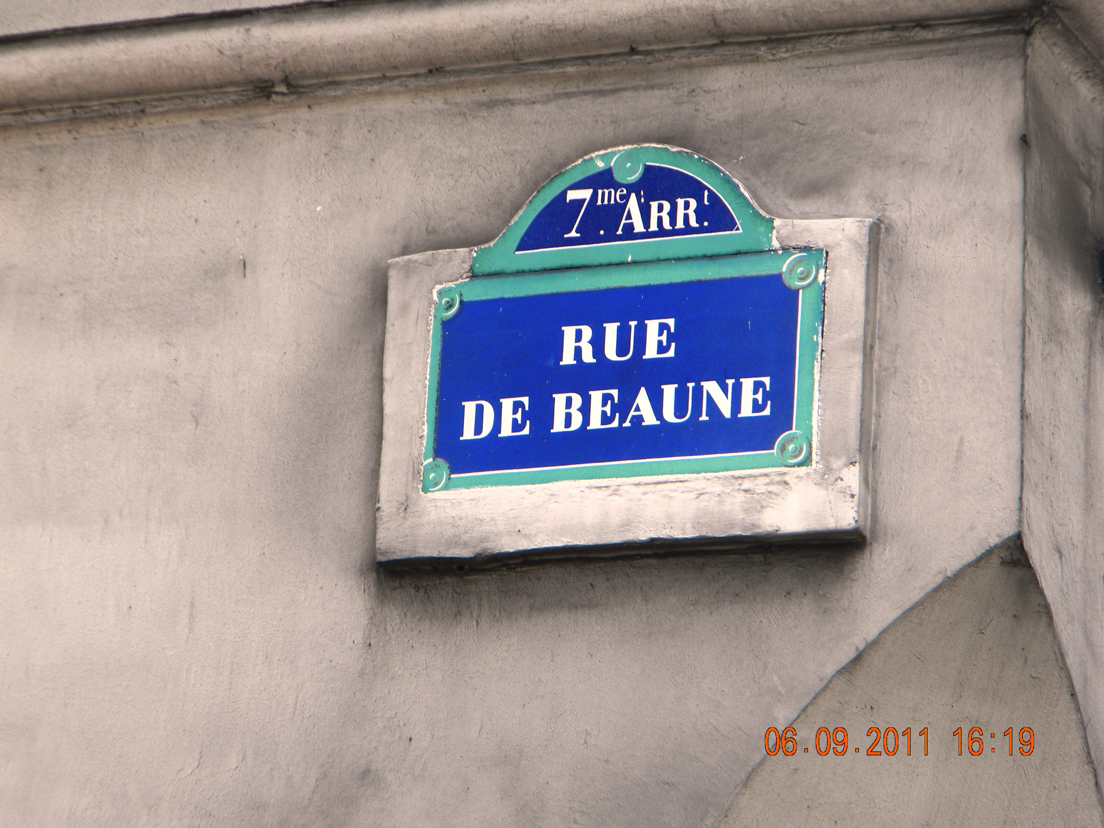 Rue de Beaune, Paris